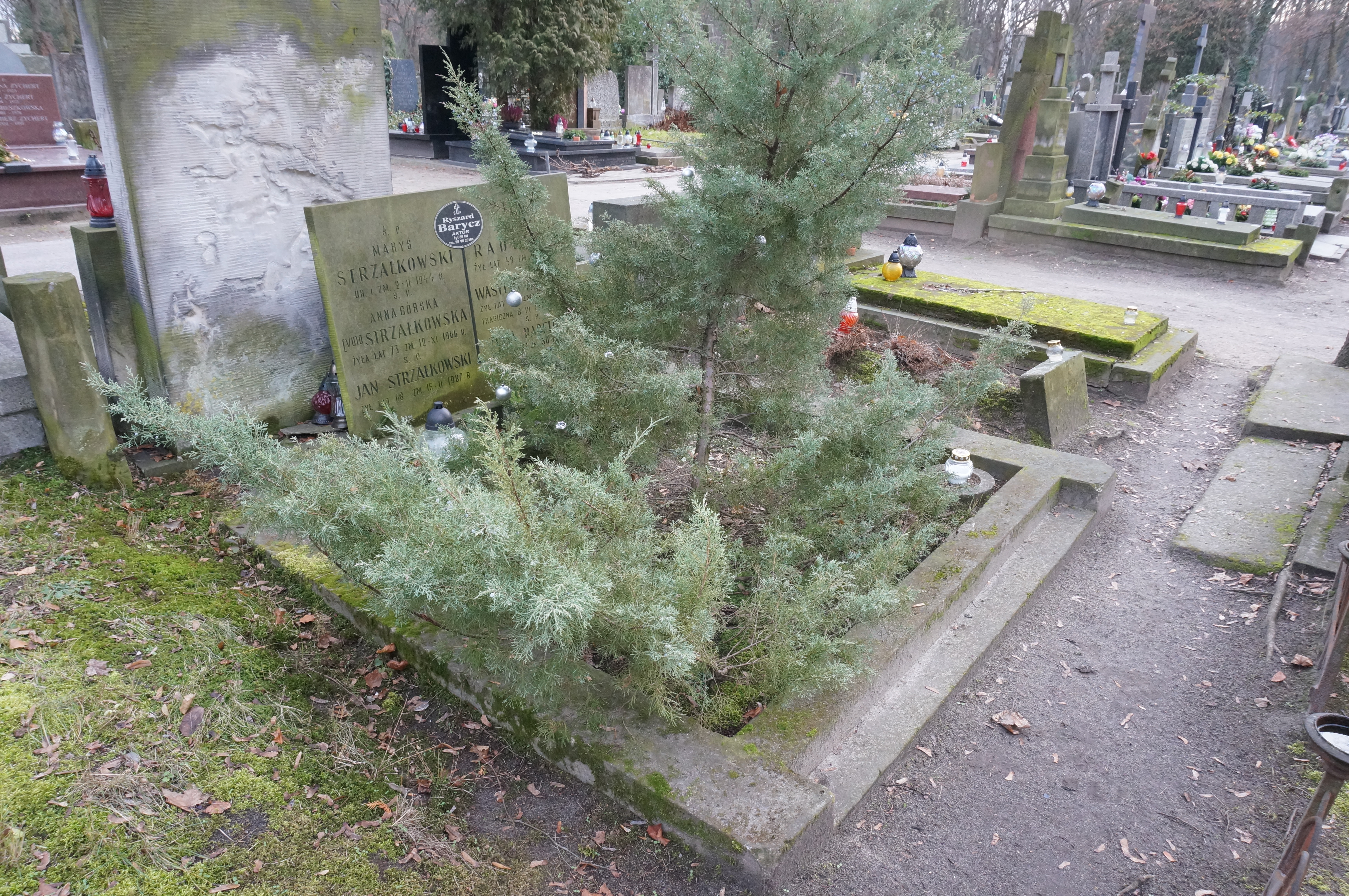 The grave of Ryszard Barycz at the Powązki Cemetery (section 212, row 2, grave 26, 27)